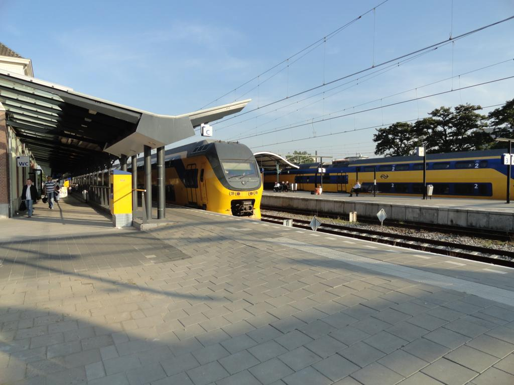 Apeldoorn central station